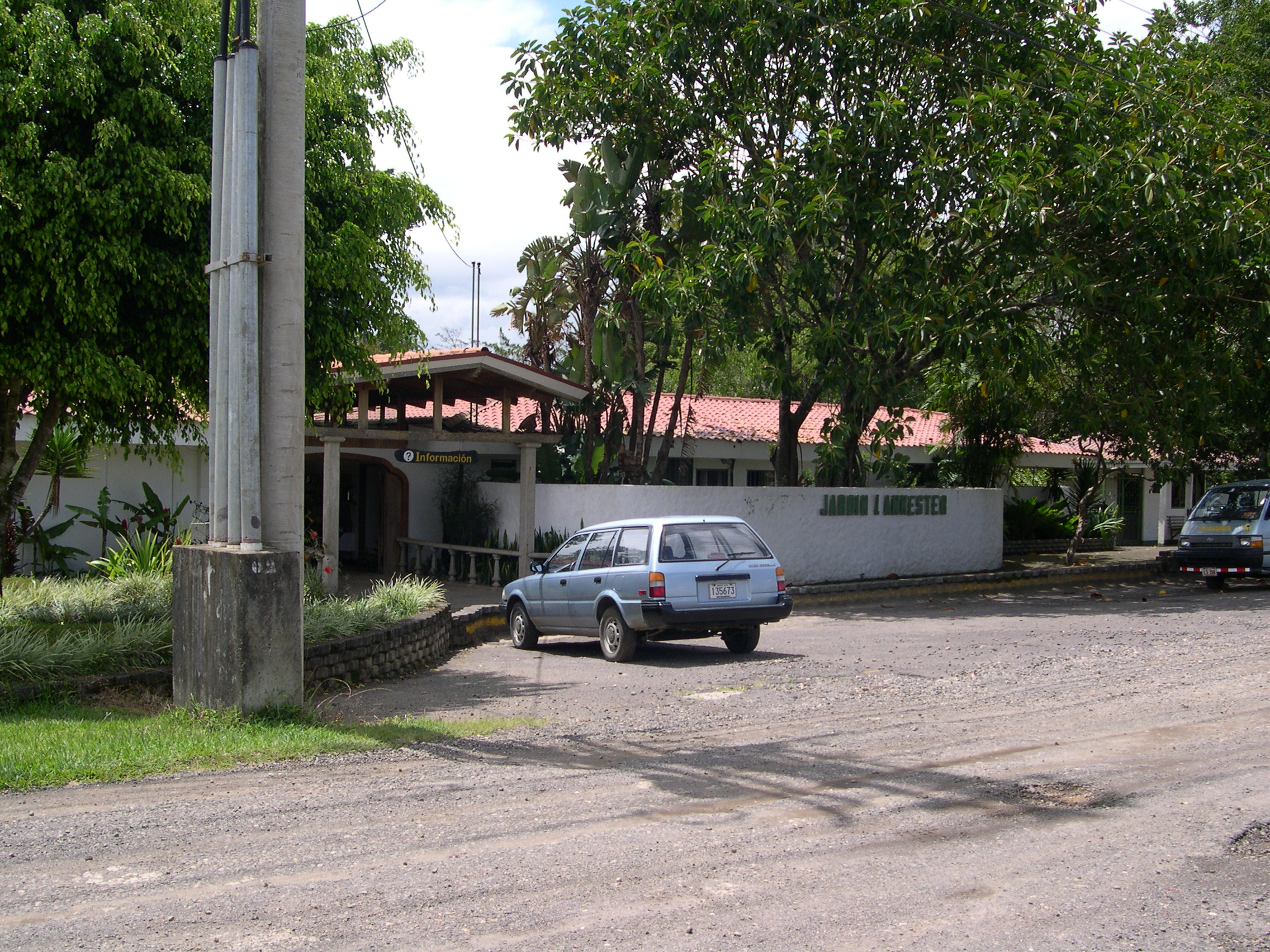 Outside of Jardín Botánico Lankester